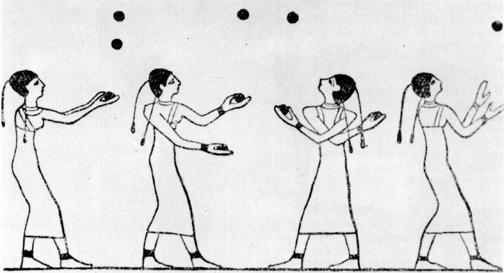 early Egyptian juggling art Image:Jonglage ancien egypte.jpg Immagine:Antichi giocolieri egiziani.jpg